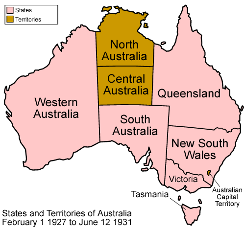 Map of the states of Australia as they were between 1927 and 1931. On February 1, 1927, Northern Territory was split in two at the 20th parallel, forming North Australia and Central Australia. The two were remerged on June 12, 1931. Made by User:Golbez.